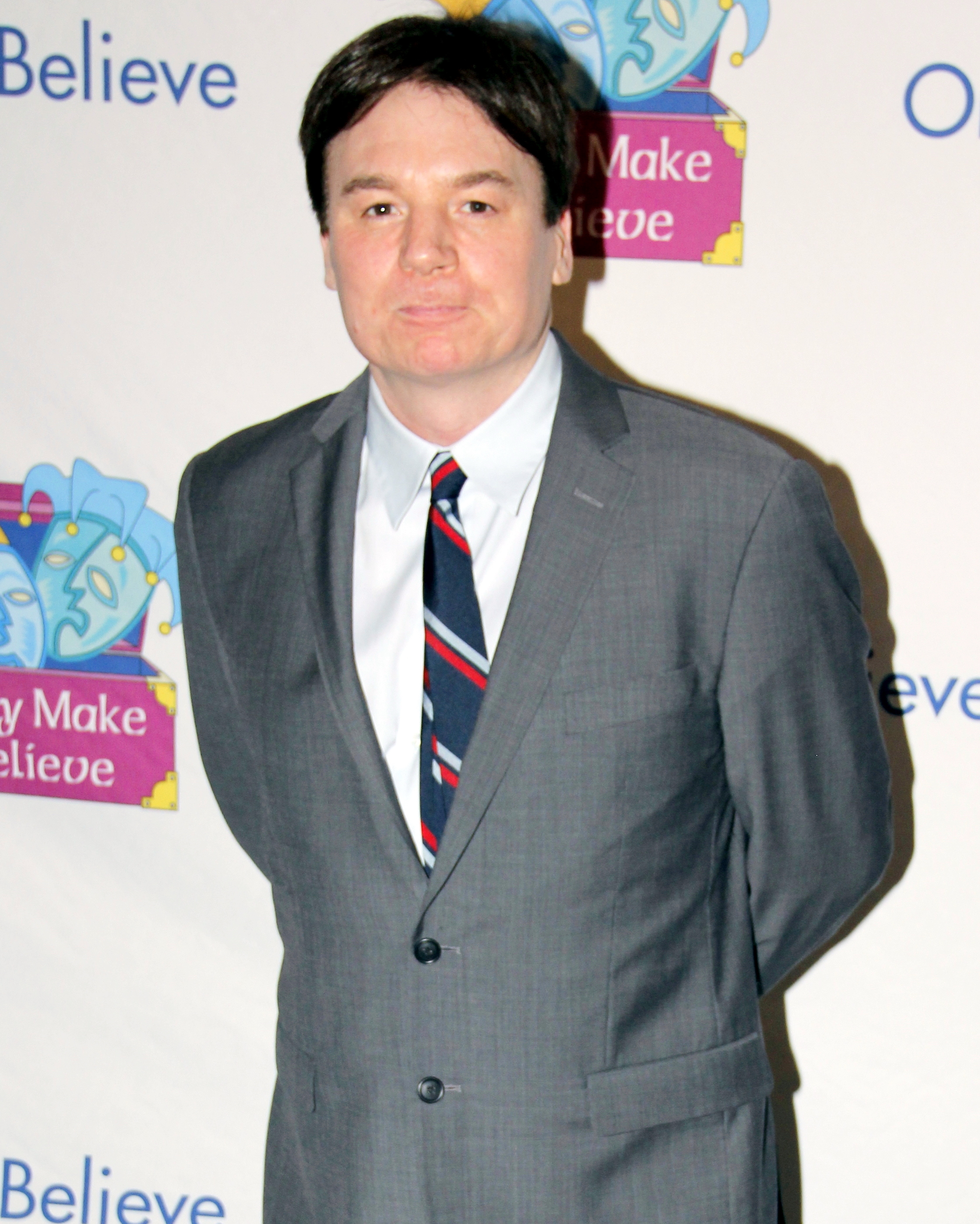 Mike Myers at the Make Believe On Broadway 2011, New York City.